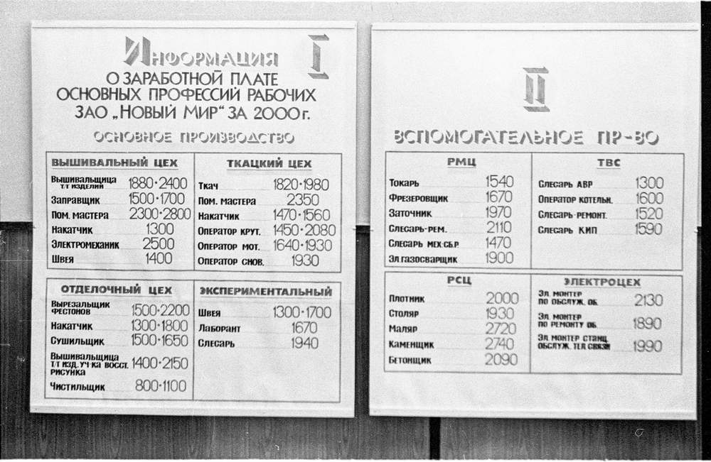 2000 year salary tables at the «New World» factory shown during the job fair. Conference hall of the «New World» factory in Pereslavl.